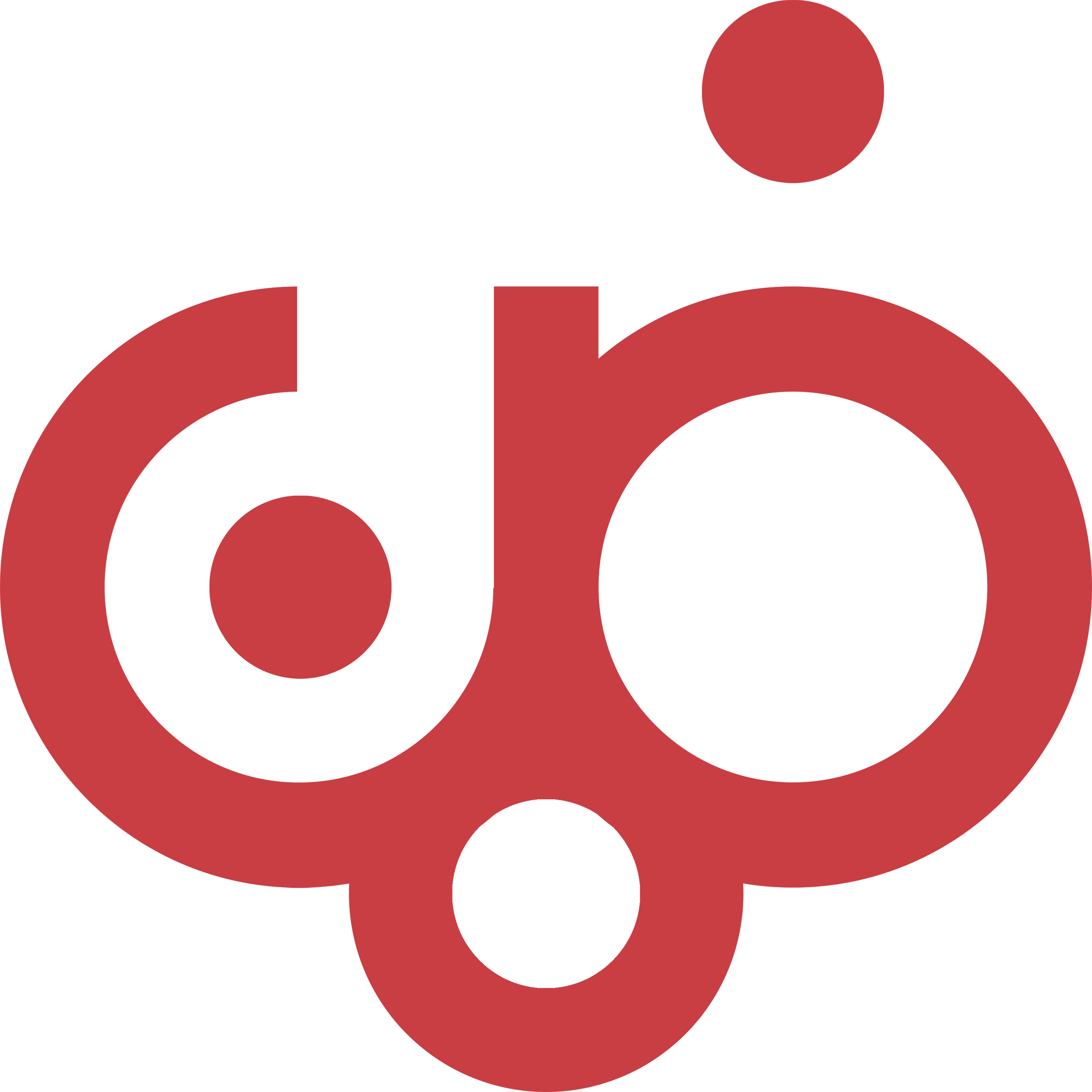 Transparent logo of Dhammin.